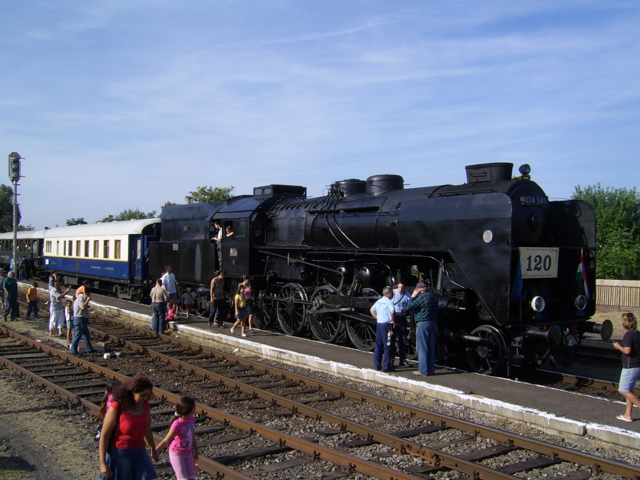 Celebrate the 120 years old Budapest-Lajosmizse-Kecskemét rail, Örkény, Hungary. Locomotive: MÁV 424,247